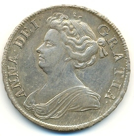 Anne of Great Britain, Half-crown